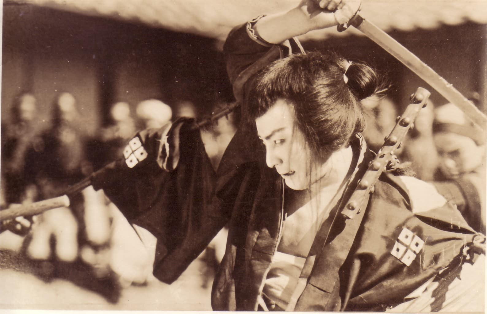 Orochi